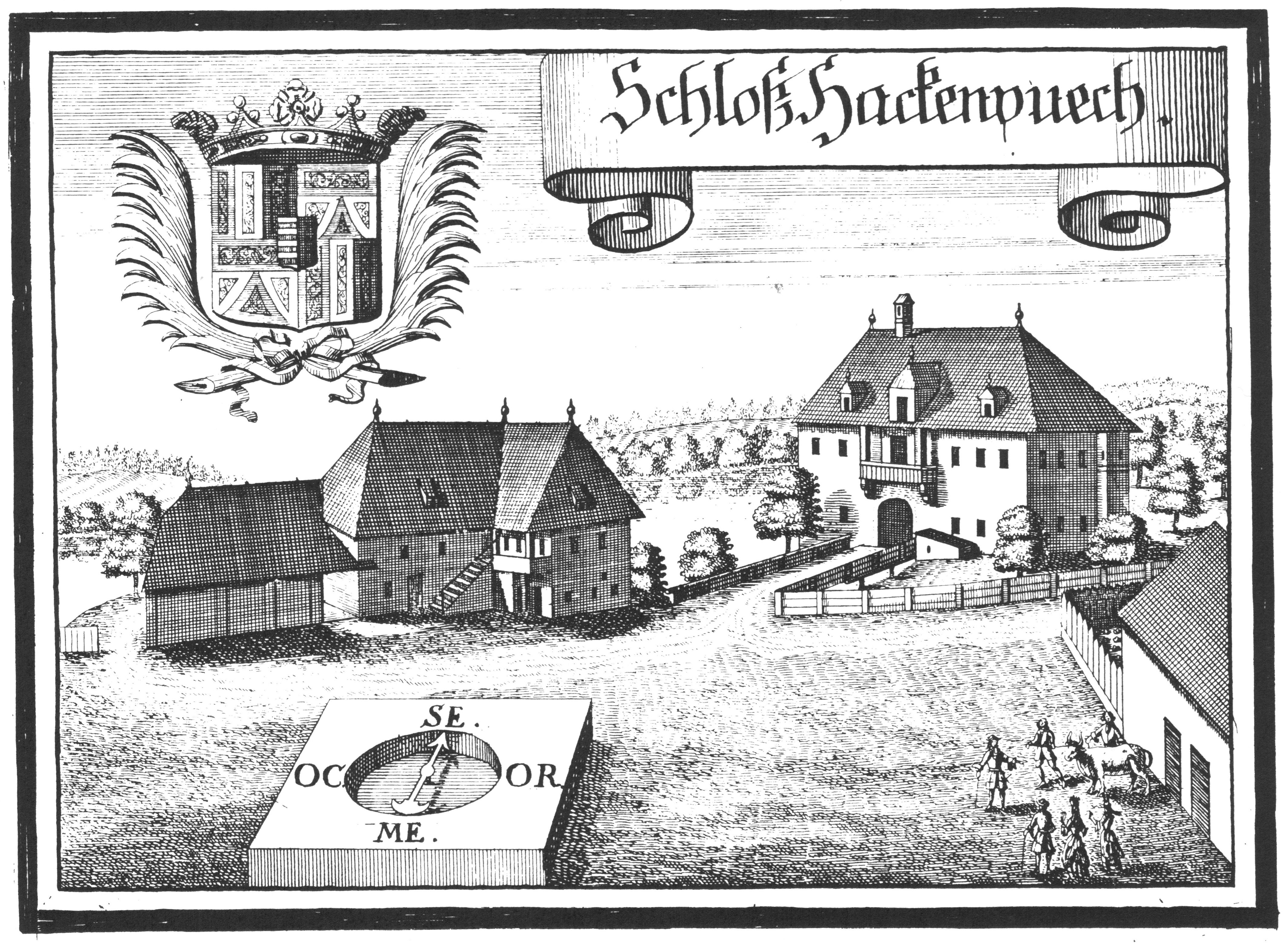 Michael Wening: Engraving of Hackenbuch castle, Upper Austria (ca. 1721)